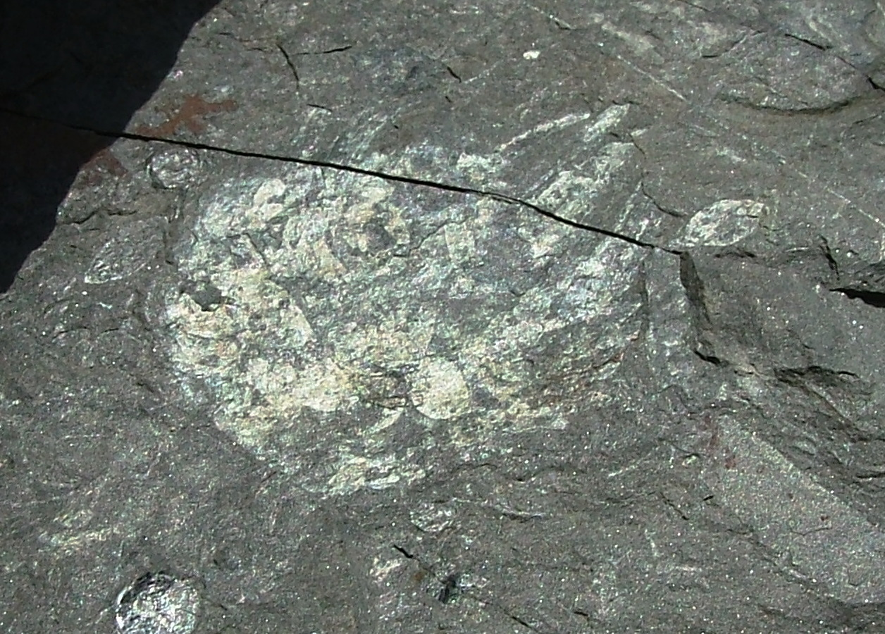 A fossil of Wiwaxia corrugata Matthew 1899, in talus material below the Walcott Quarry.